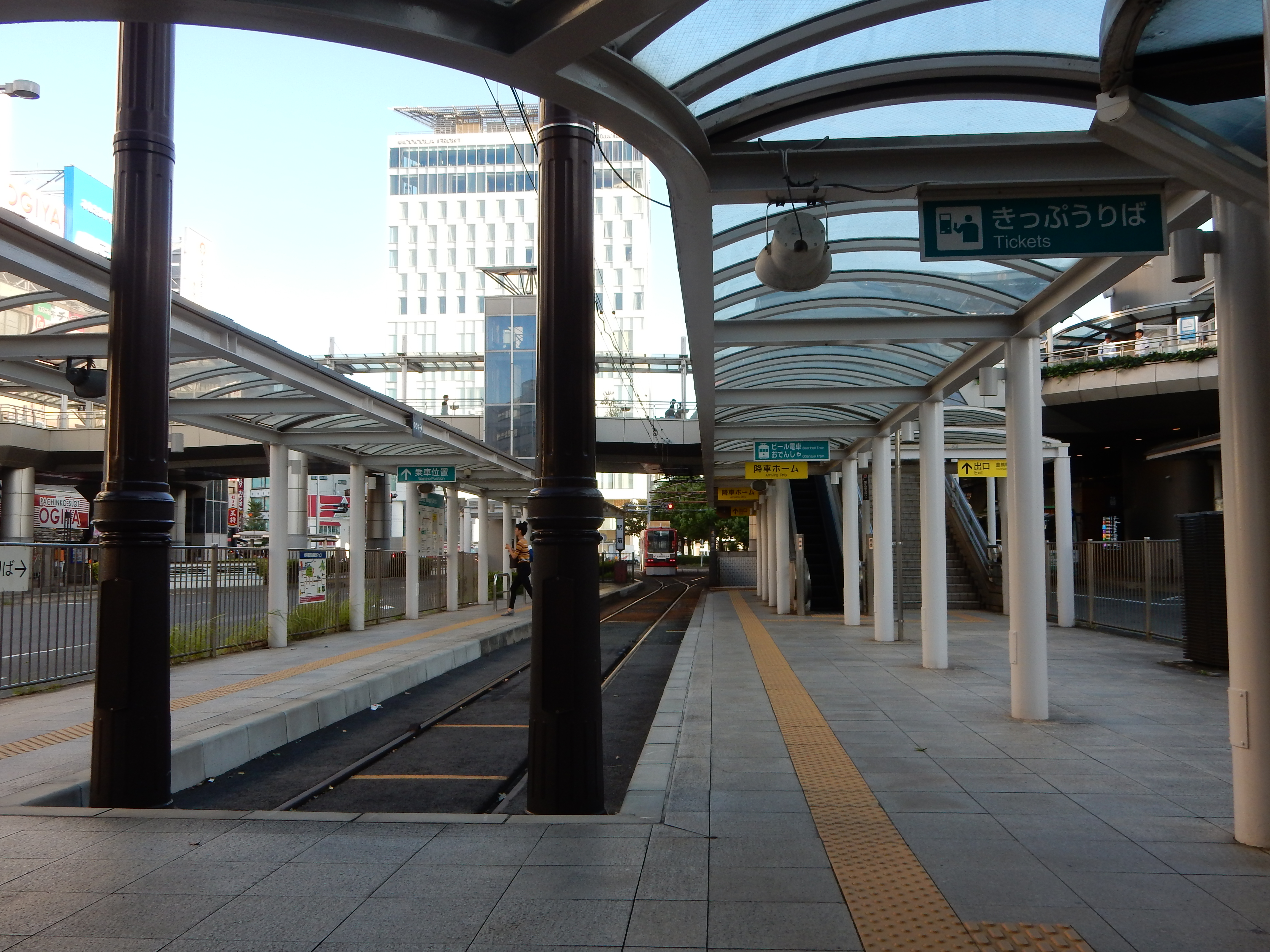 Ekimae Tram Stop (駅前停留場 Ekimae Tēryūjō), located at nishijuku, Hanada-cho, Toyohashi, Aichi, Japan